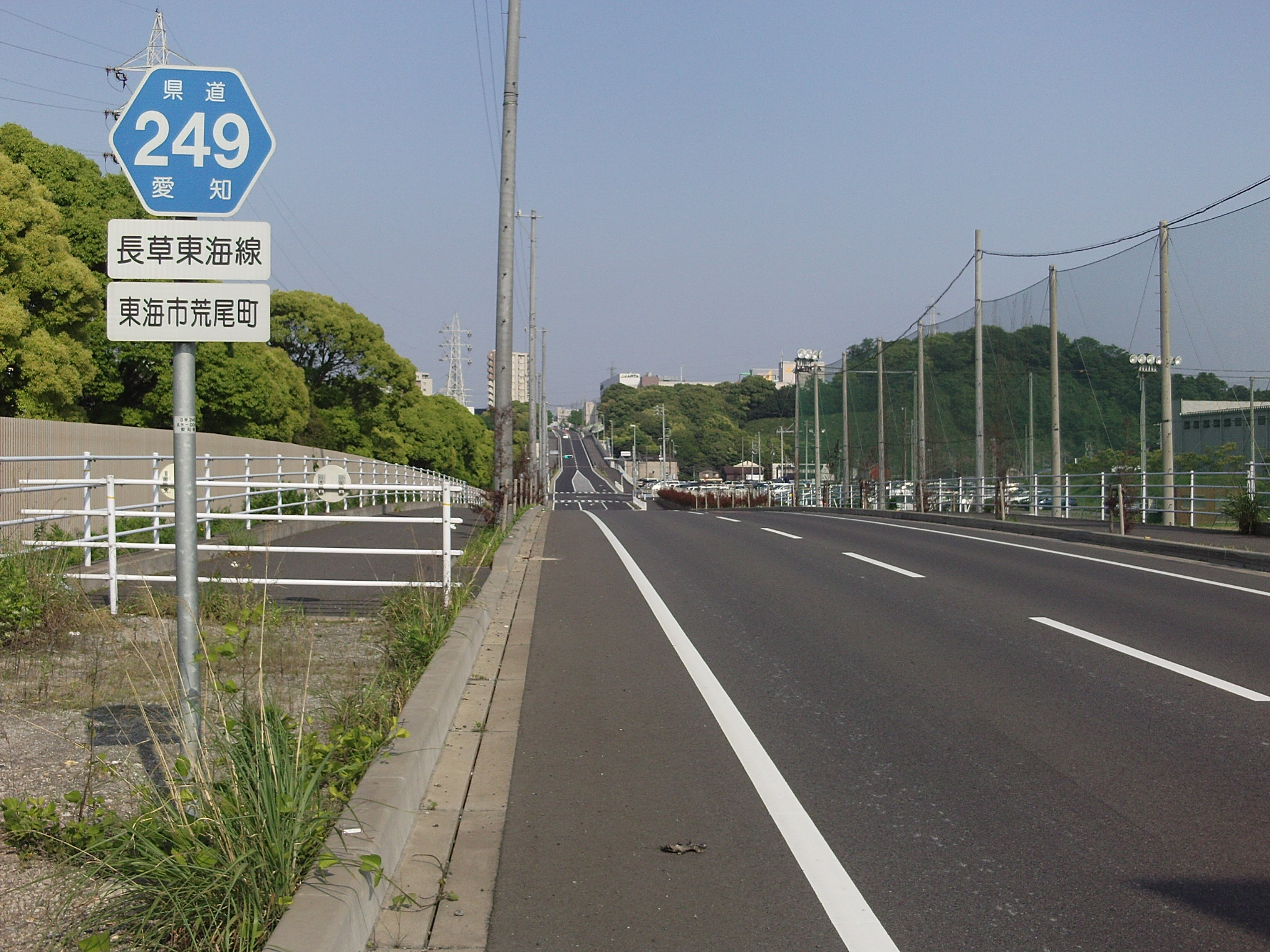 Aichi prefectural road No.249 in Araomachi, Tokai, Aichi.